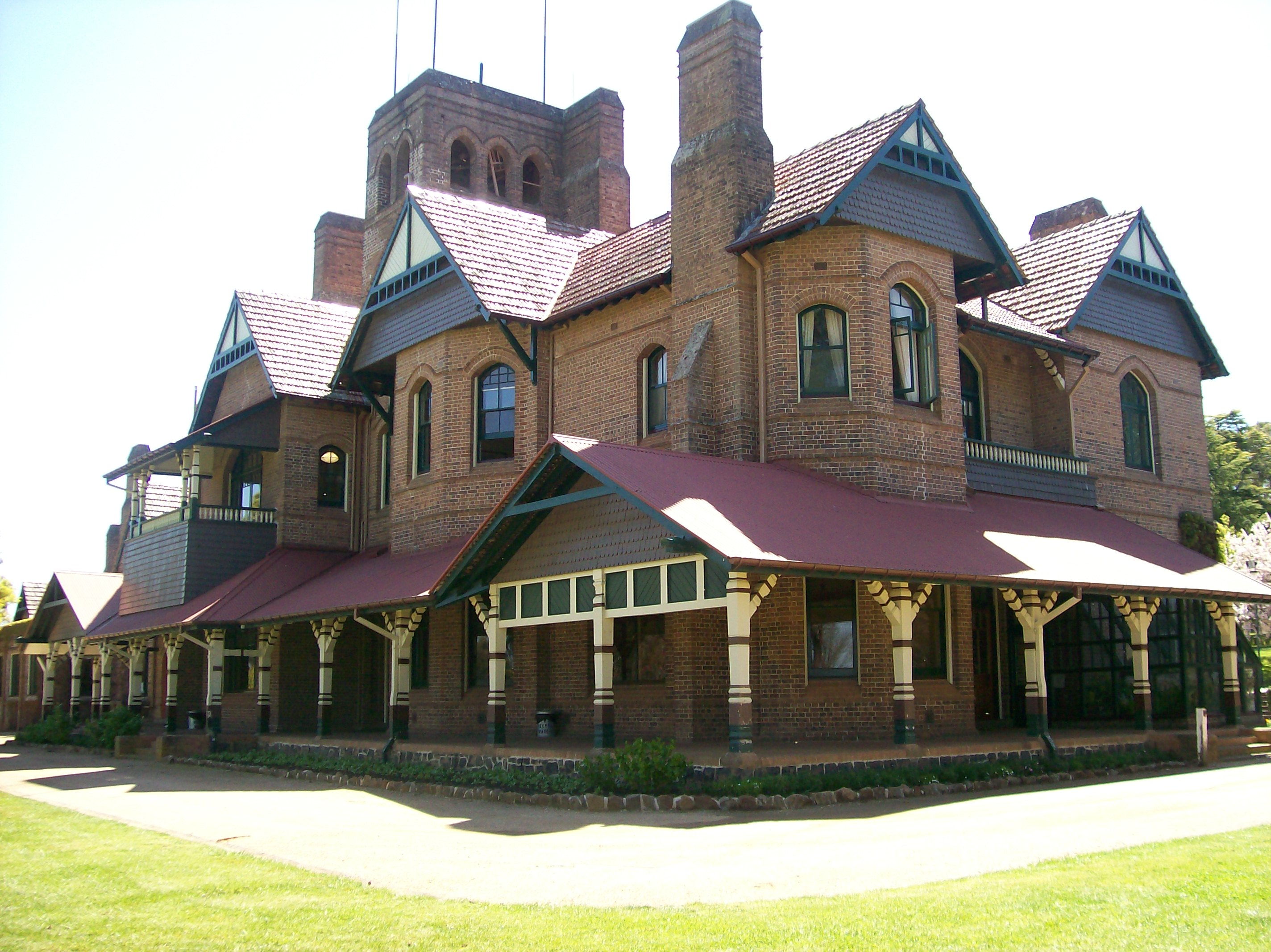 Booloominbah mansion, Armidale, Australia